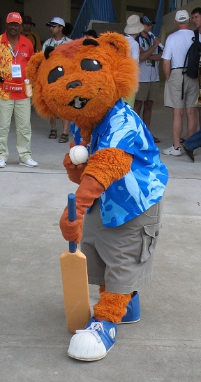 Mello, cricket world cup 2007 mascot